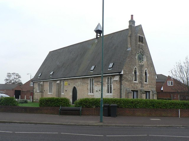 Moordown: the old school This building was the village school of Moordown until it was replaced by purpose-built premises near the parish church in the early 20th century. Having spent most of the 20th century as a retail premises, it has now been converted to dwellings and, along with new houses in its grounds, is called Old St. John’s Mews.